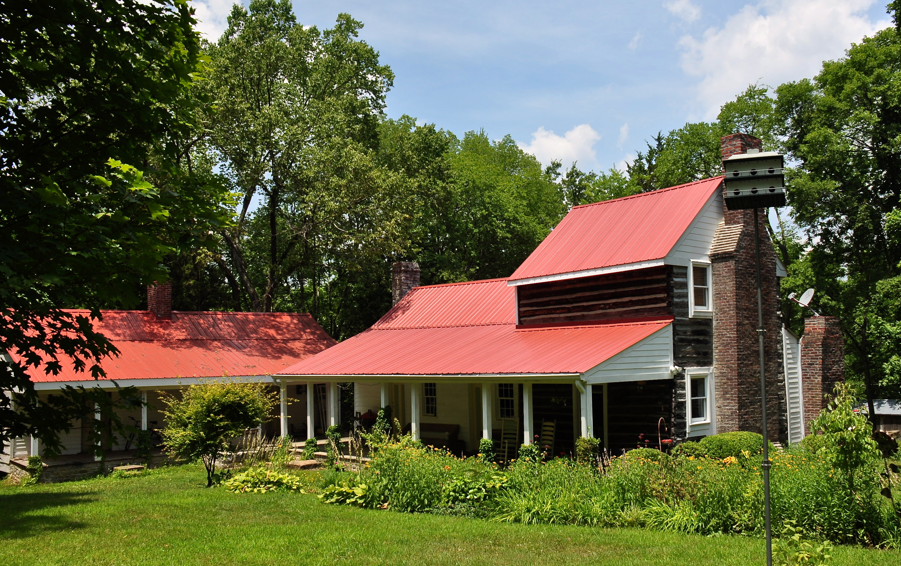 Benajah Gray Log House, 446 Battle Rd. Antioch, Davidson County, Tennessee.